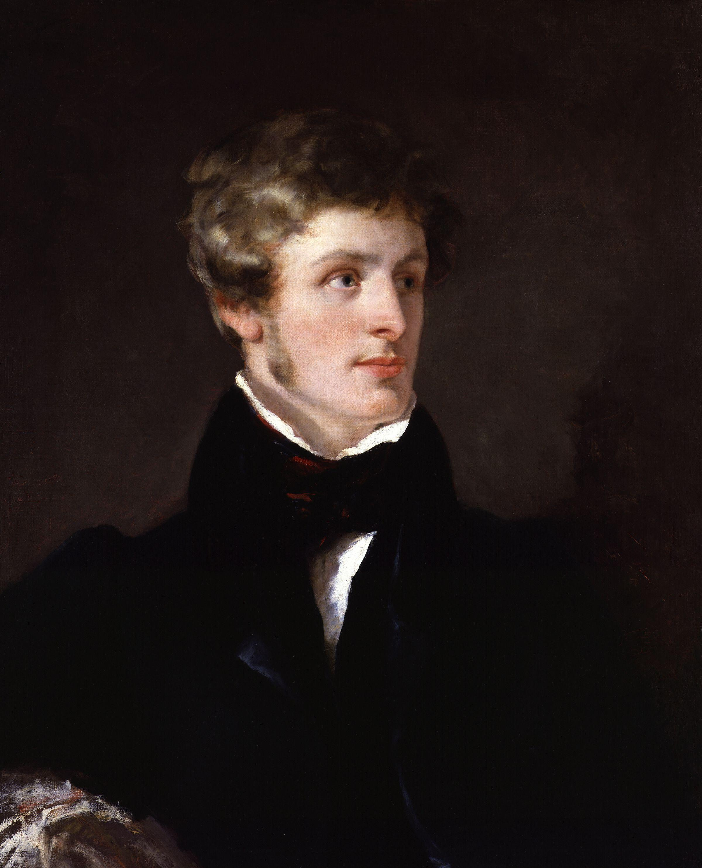 David Octavius Hill, by Robert Scott Lauder (died 1869). All images in this batch have been confirmed as author died before 1939 according to the official death date listed by the NPG.